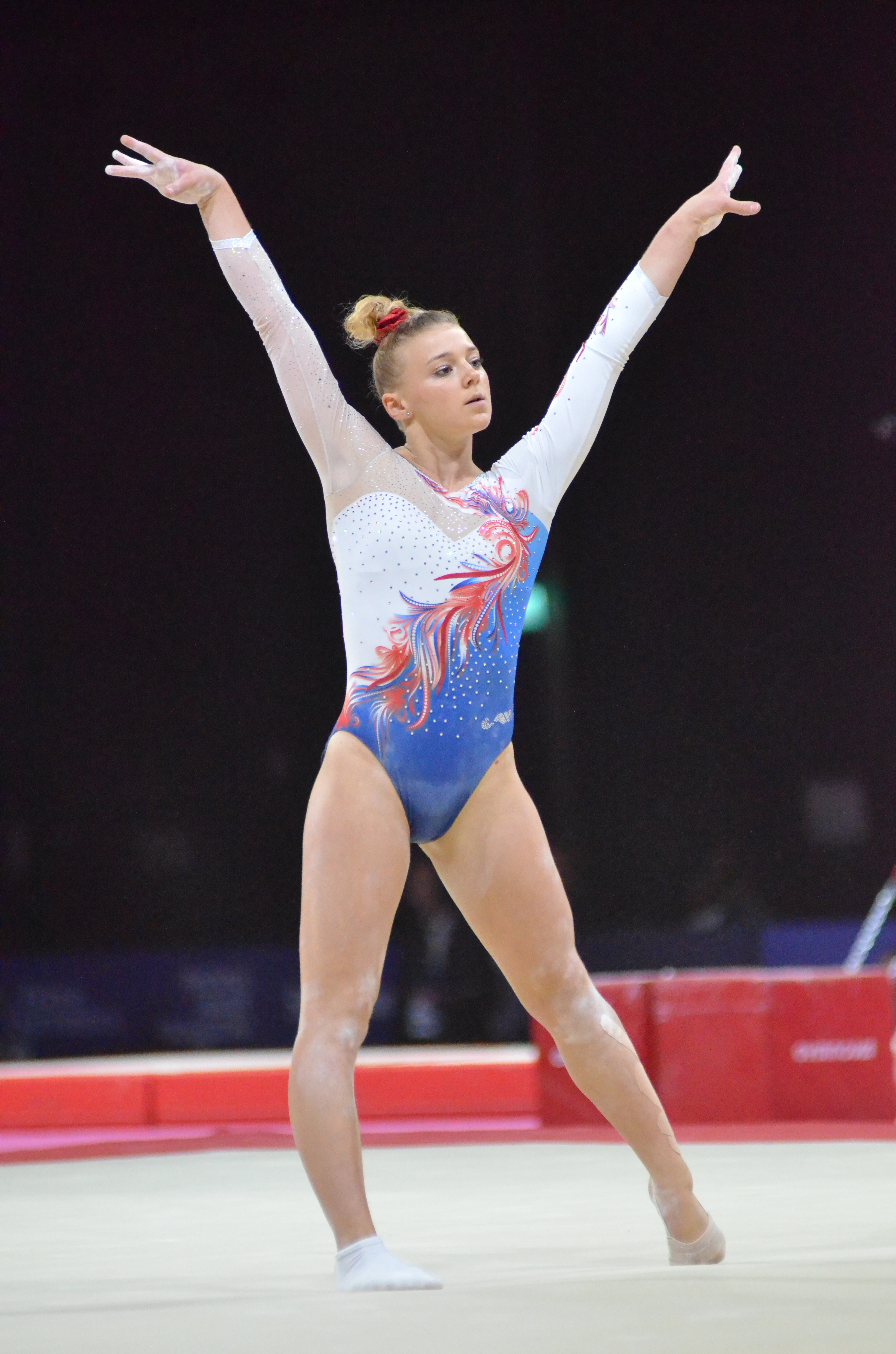 Lorette Charpy (FRA) Floor - Subdivision 4 - Rotation 4 - Women's Qualifications - Artistic Gymnastics European Championships Glasgow 2018, The SSE Hydro, Glasgow Scotland, August 2nd, 2018. Two days later, on August 4th, this young lady won Silver Medal together with her team France in Women's Team Final. - Photo by Alex Filipov Instagram: @a.s.photoz